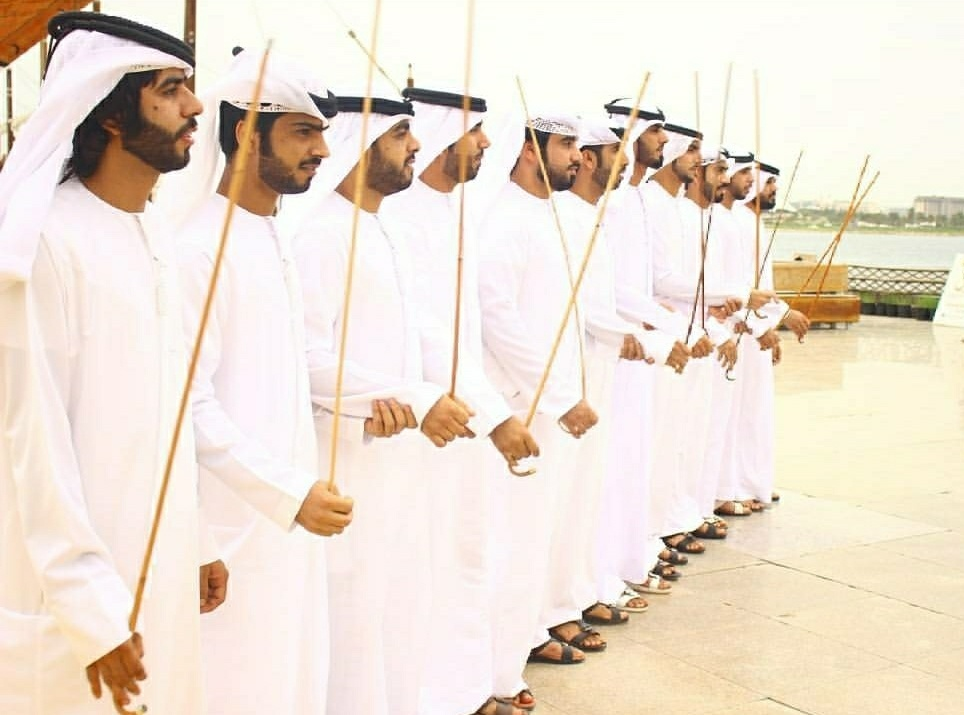 Harbiya band performance in an Emirati wedding.